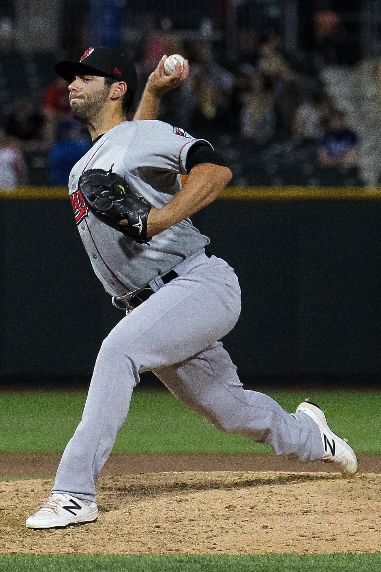 Tucker Healy pitched one inning of relief for the Nashville Sounds in a no-hitter on June 7, 2017; by Minda Haas Kuhlmann USAGE INSTRUCTIONS: You are welcome to share or publish to your own site or social media account, but you MUST credit me, Minda Haas Kuhlmann, or by my Twitter handle (@minda33) or Instagram (minda.haas).